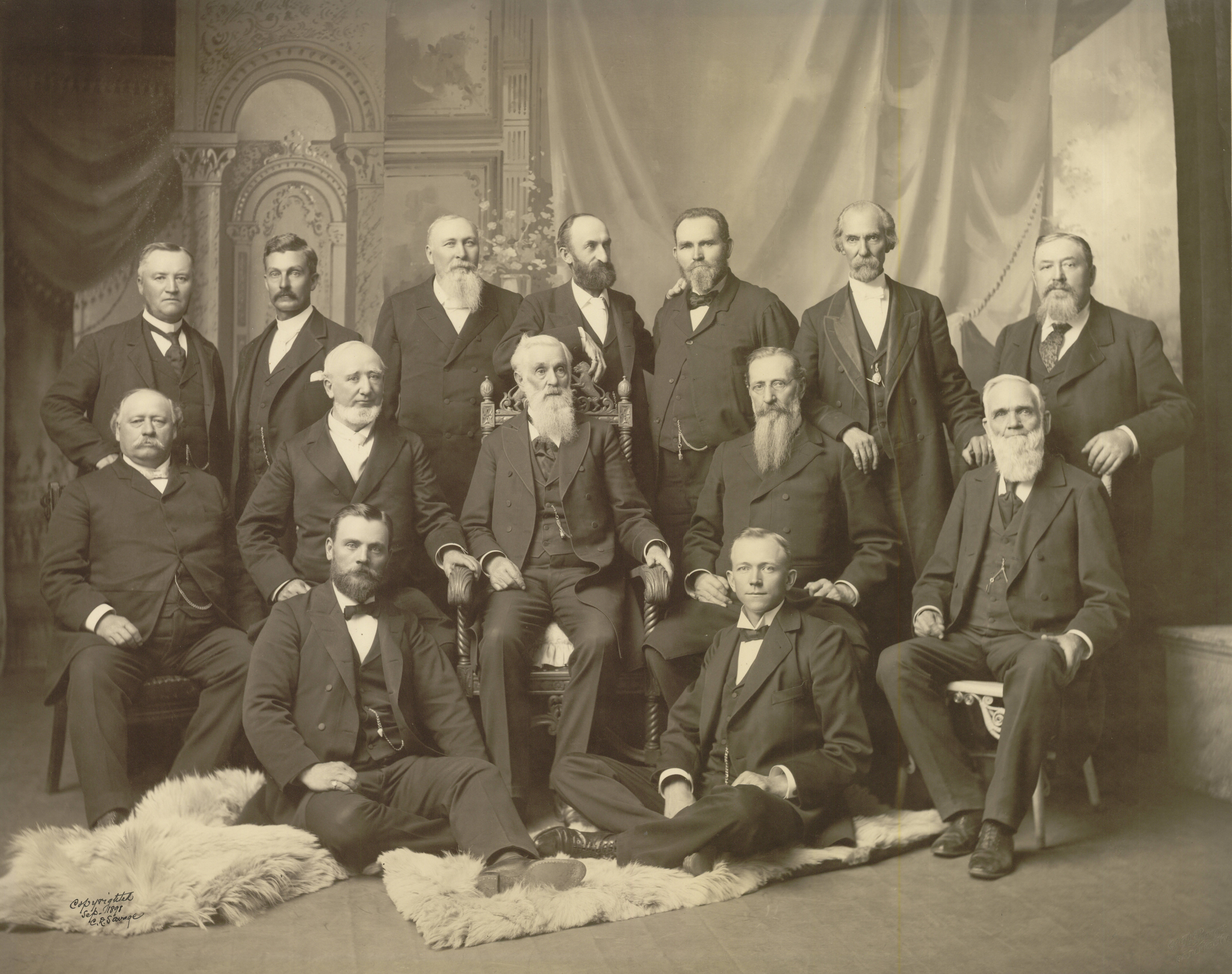 The First Presidency and the Twelve Apostles. Standing, from left to right: Anthon Hendrik Lund, John William Taylor, John Henry Smith, Heber Jeddy Grant, Francis Marion Lyman, George Teasdale, Marriner Wood Merrill. Seated, from left to right: Brigham Young, Jr., George Quayle Cannon, Lorenzo Snow, Joseph F. Smith, Franklin Dewey Richards. Front row, from left to right: Matthias F. Cowley and Abraham Owen Woodruff. At the date on this photograph (September 1898), there were only eleven members of the Quorum of the Twelve Apostles. Wilford Woodruff had just died (Sept 2) and Lorenzo Snow was called from the Quorum to become the next president (Sept 13). The vacancy in the Twelve would be filled the next month when Rudger Clawson was ordained (Oct 10). Some captions or revisions to this photograph have included Clawson or Reed Smoot (ordained 1900). Call number MSS P 24 Item 793 is another version of this photo with Reed Smoot pasted in between Taylor and J. H. Smith in the back row, and Rudger Clawson between Teasdale and Merrill. (See "other versions" below.)